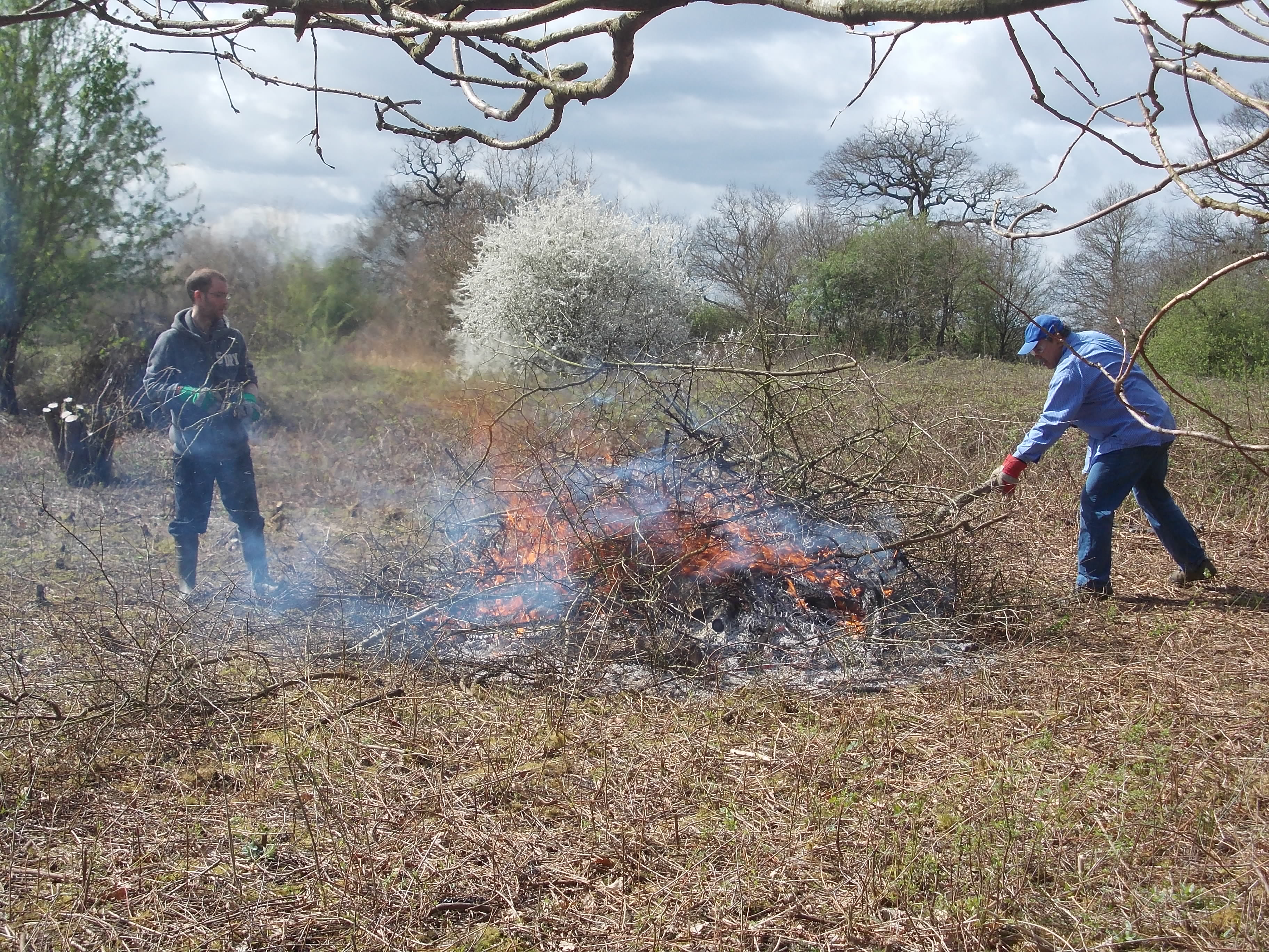 Burning Brash at Ten Acre Wood, Hillingdon